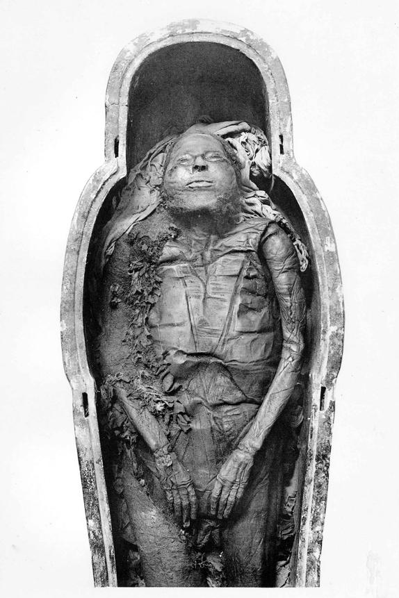 Mummy of Masaharta, High Priest of Amun during the 21st dynasty, found in DB320.